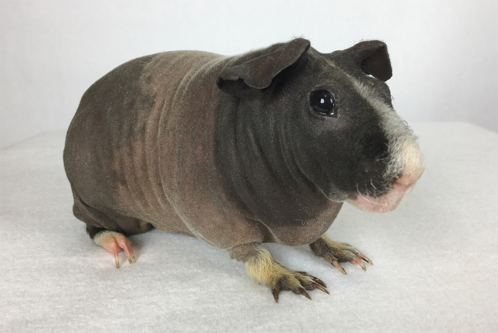 Adult female skinny pig (cavy), black, cream and white